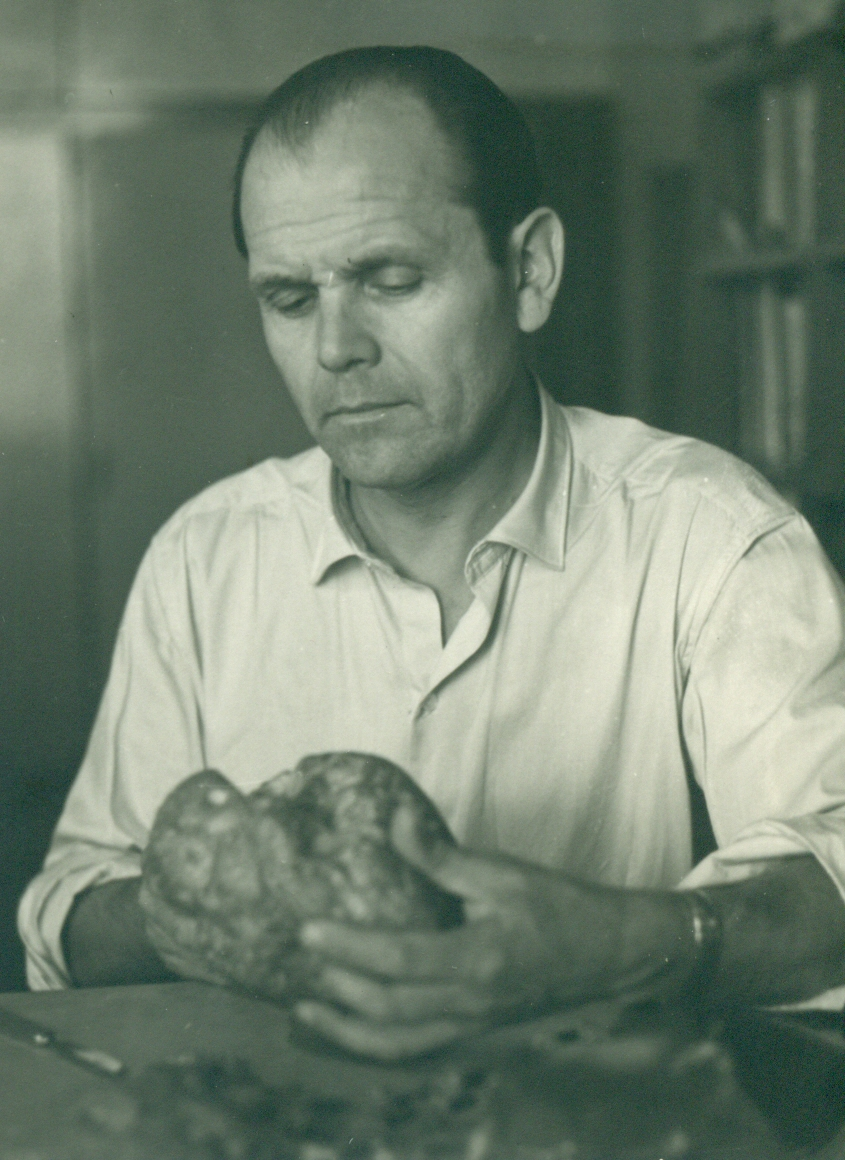 Feliksas Daukantas in the working process